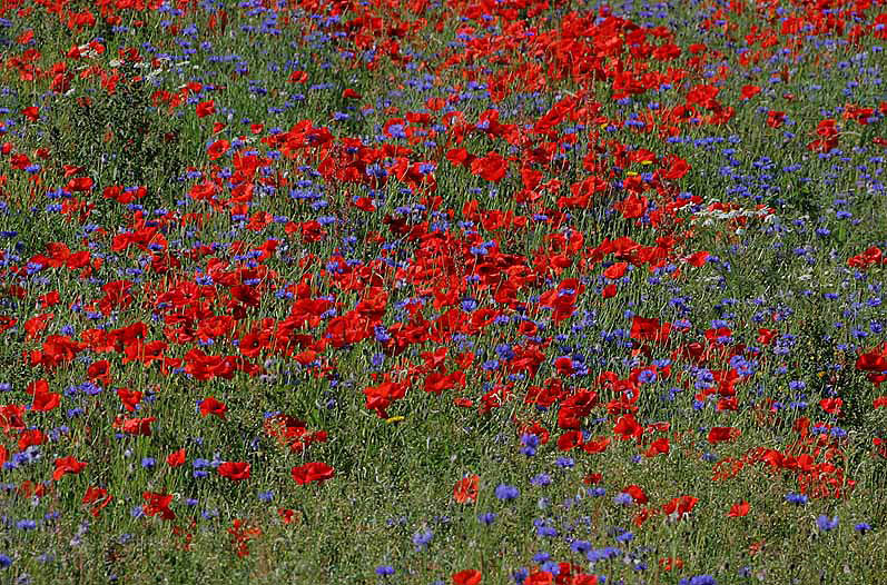 This mixed meadow of Corncockle Cornflowers (Centaurea cyanus), Field Poppies (Papaver rhoeas) and Oxeye daisies (Leucanthemum vulgare) was sown to attract and support local insects at Vane Farm RSPB reserve by Loch Leven, Scotland. In 2007 the seed mix and growing conditions were clearly perfect as a stunning early autumn meadow filled with beauty and the buzz of insects was the result. Unfortunately I only had a telephoto lens with me so I was unable to capture the full beauty of the scene.